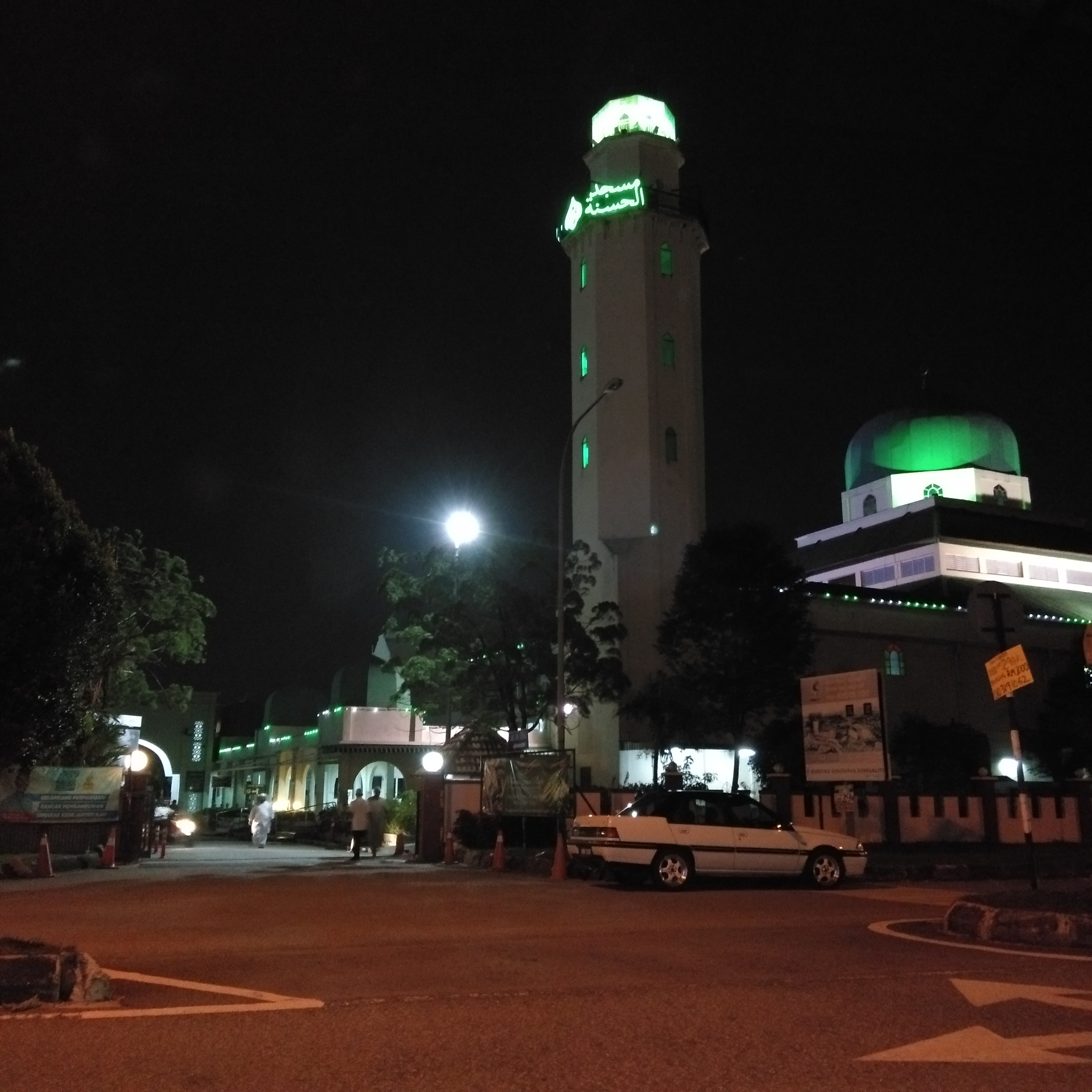 The famous green mosque in Bandar Baru Bangi